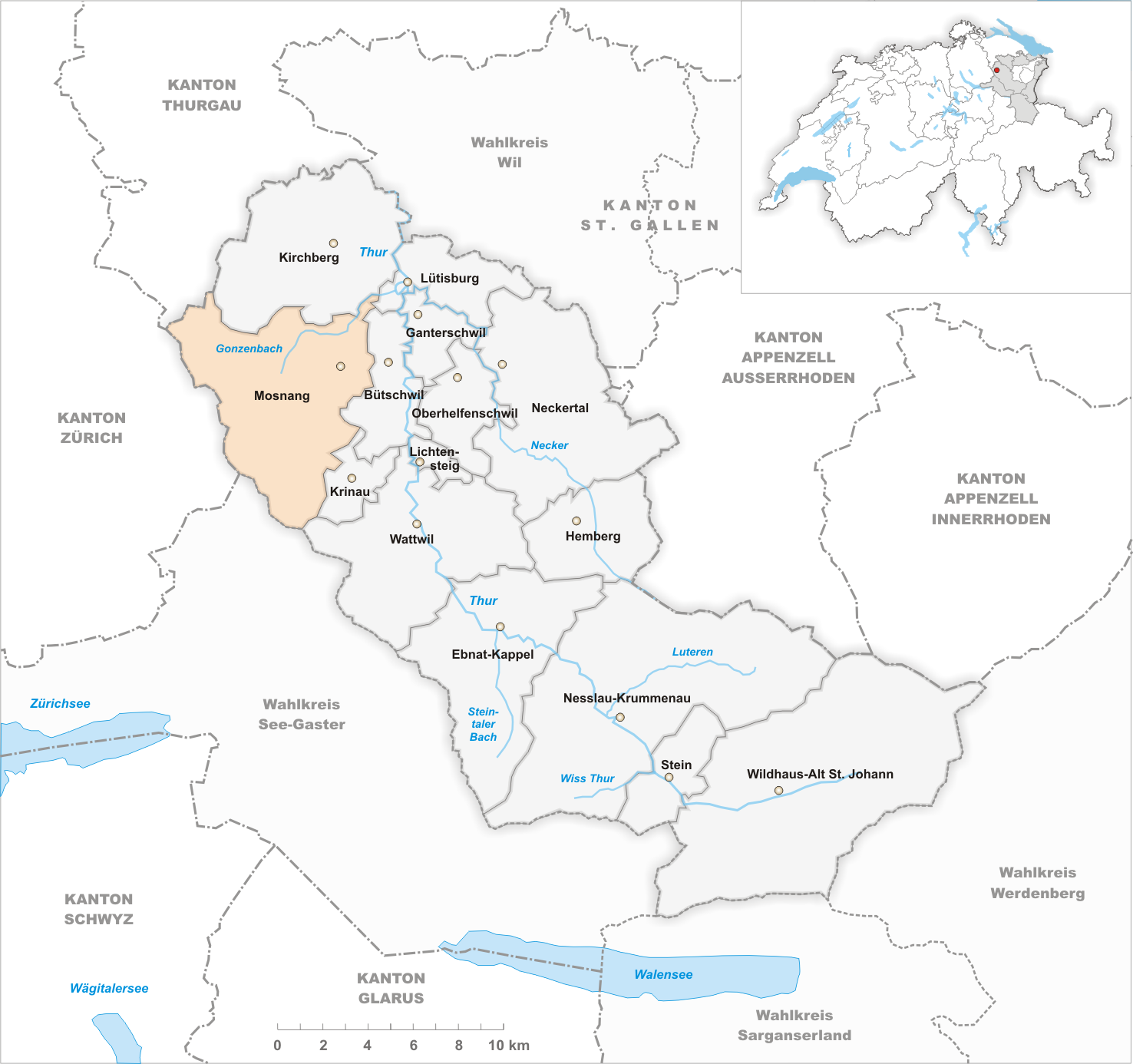 Municipality Mosnang